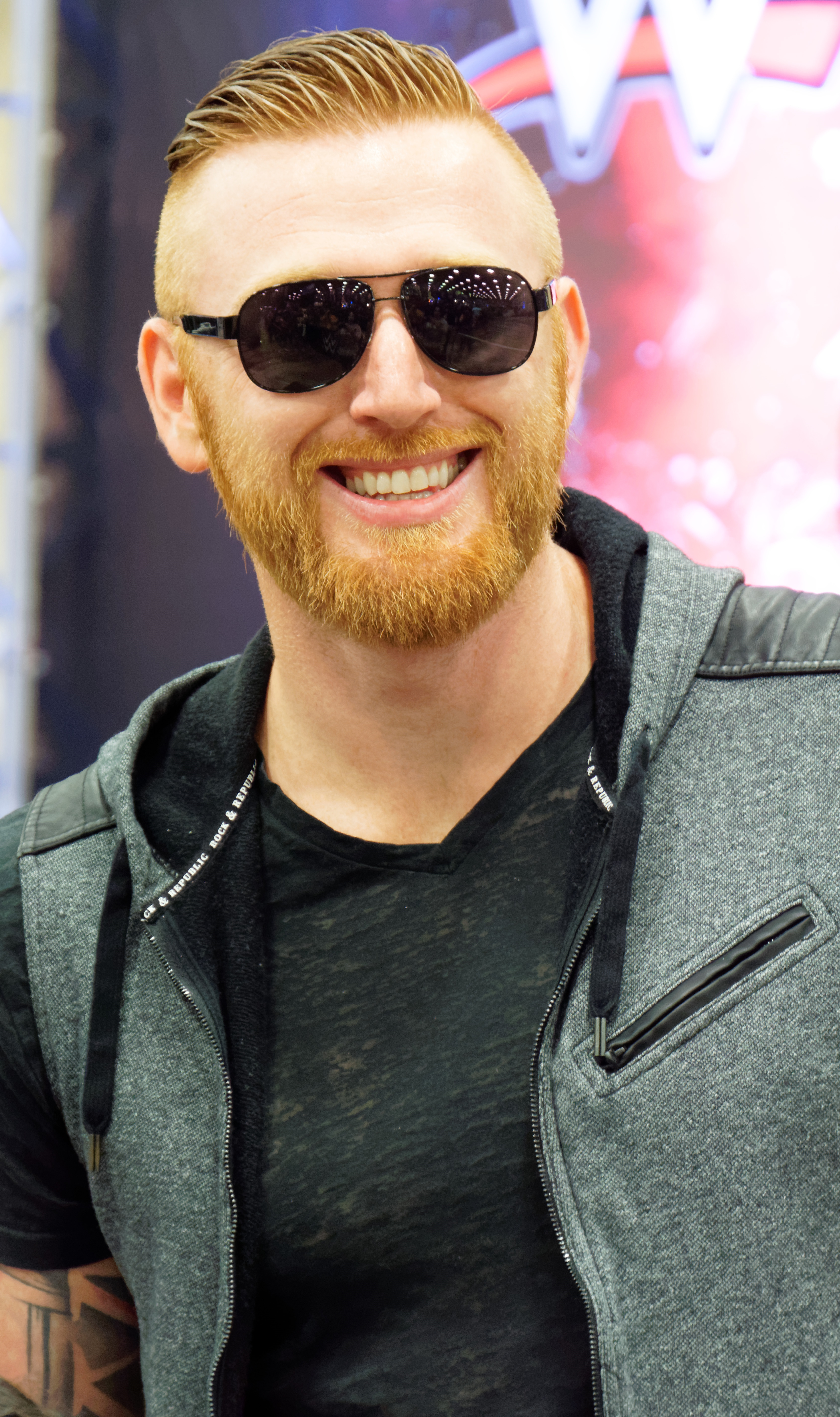 Heath Slater at WrestleMania 32 Axxess in March 2016.